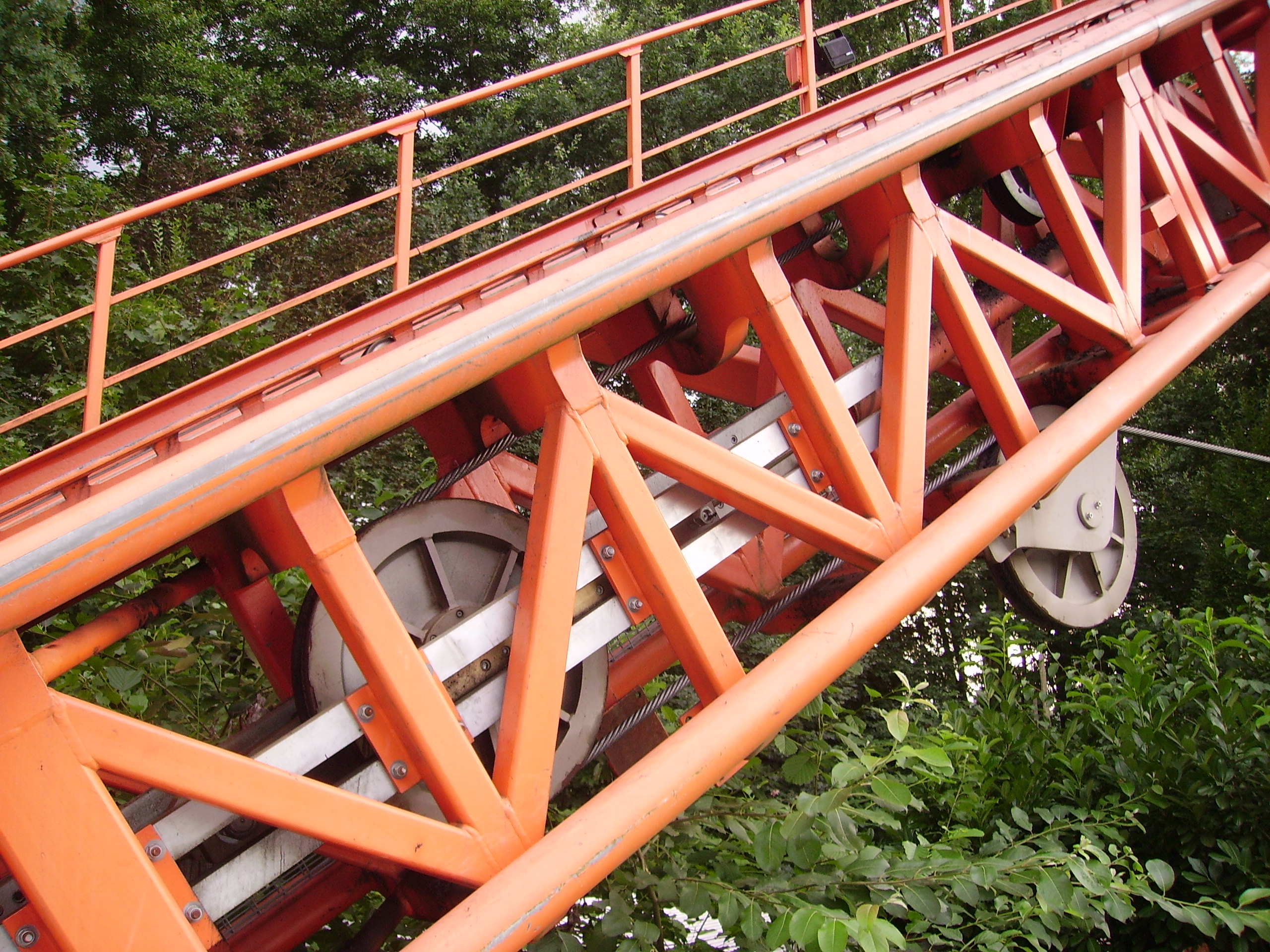 Holiday Park in Germany